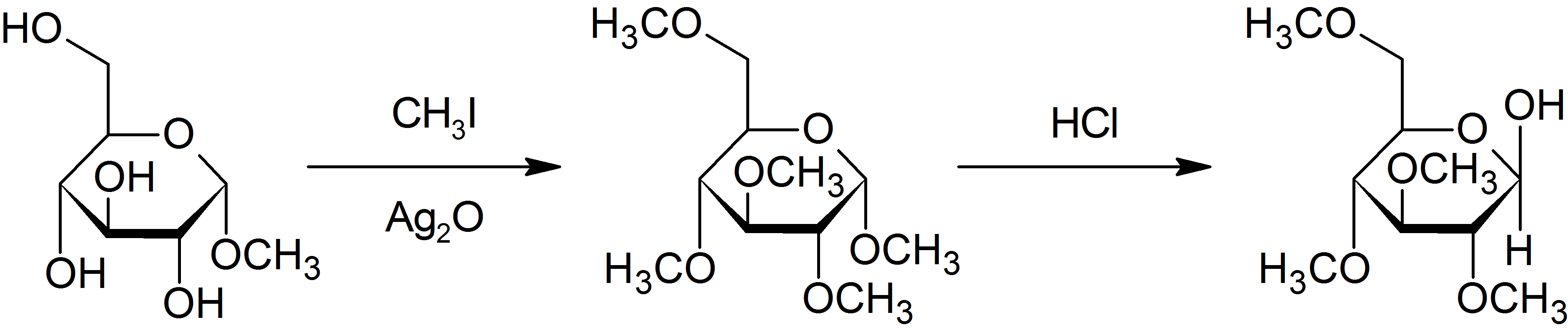 Purdie methylation scheme